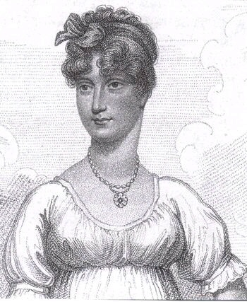 Princess Mary of the United Kingdom, Duchess of Gloucester (1776-1857)